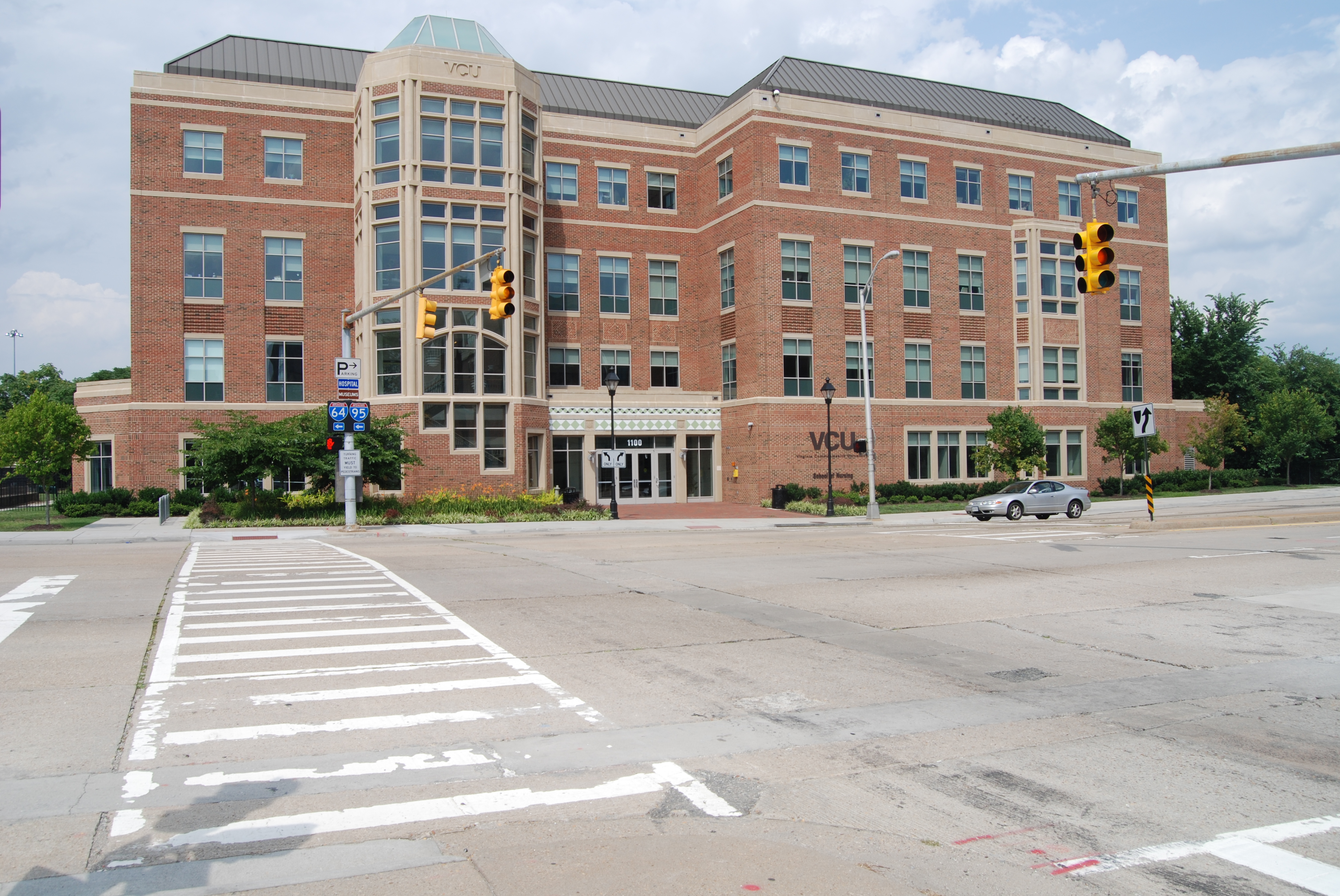 Virginia Commonwealth University School of Nursing. Photo by Jeff Auth